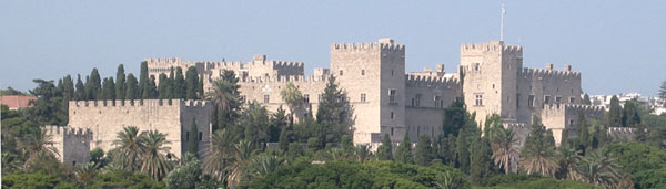 Castle of Knights' Hospitaller in Rhodos city.